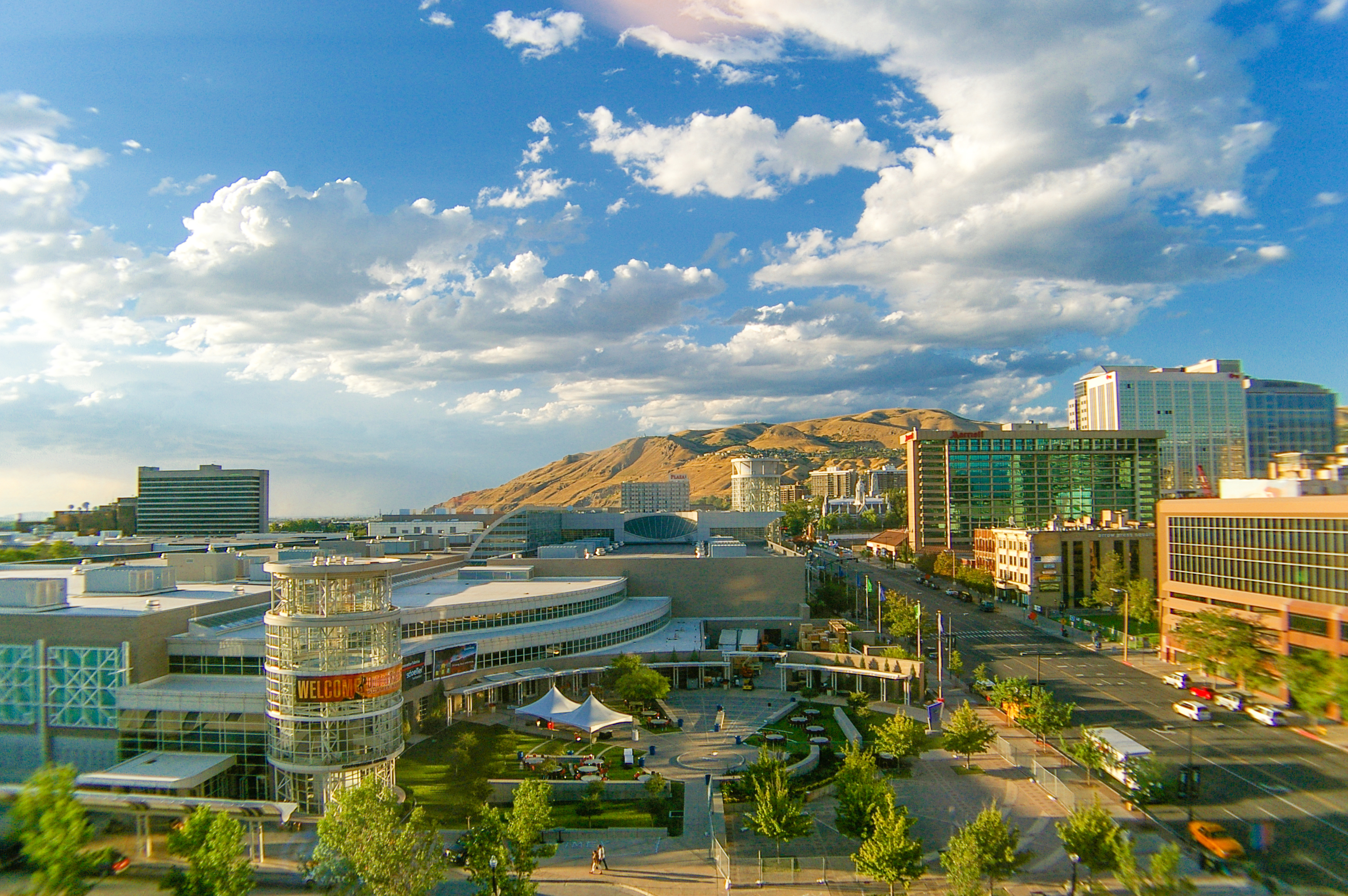 Salt Lake City, Utah, USA